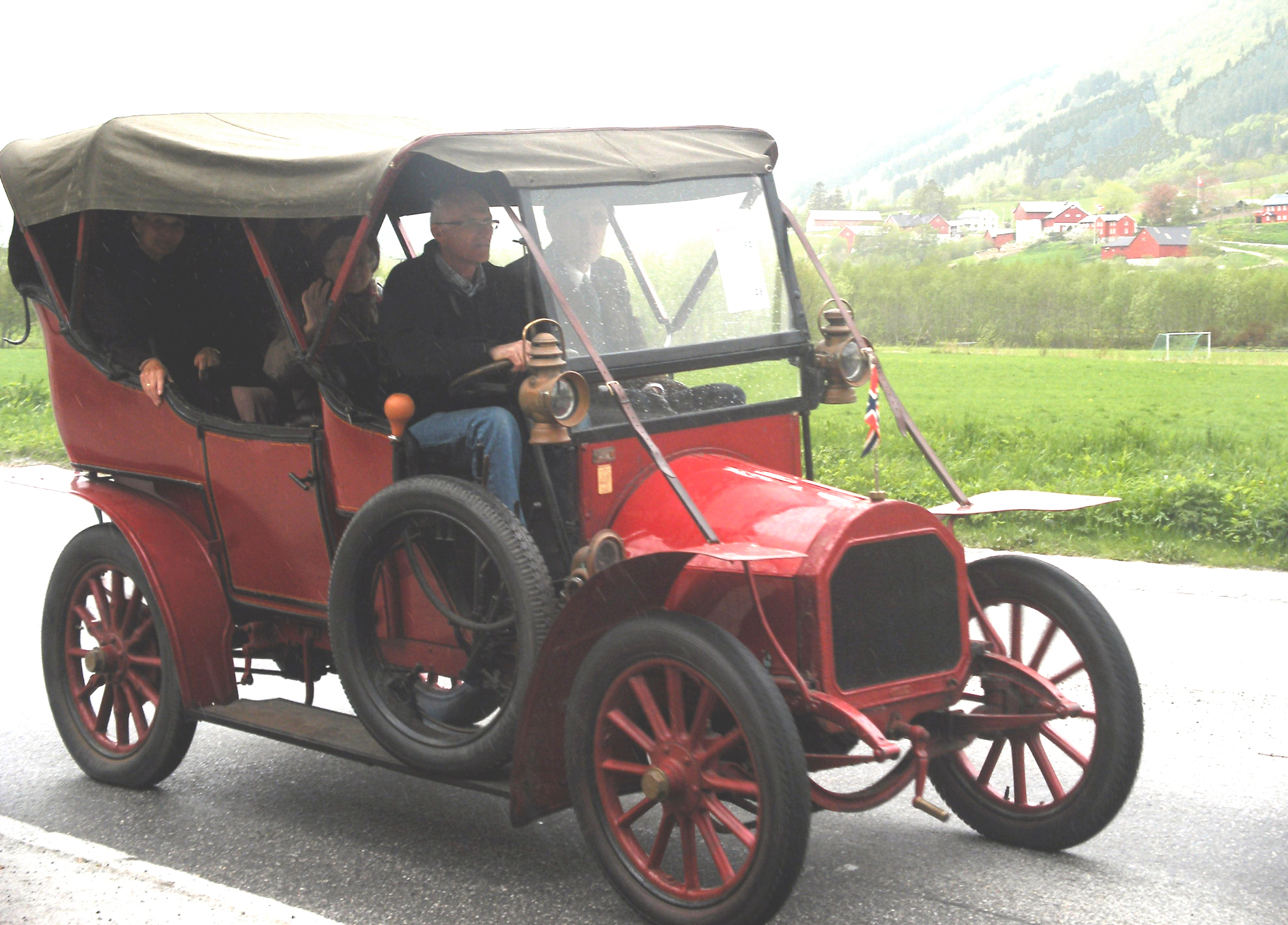 Old bus from Norway. The first norwegian bus (not the oldest). UNIC (France) 1907. Chassis build in Kristiania, Norway (= Oslo).